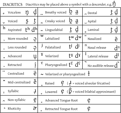 redrawn IPA chart, diacritics